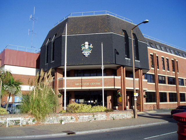 Arun Civic Centre Arun District Council offices in Maltravers Road Littlehampton.